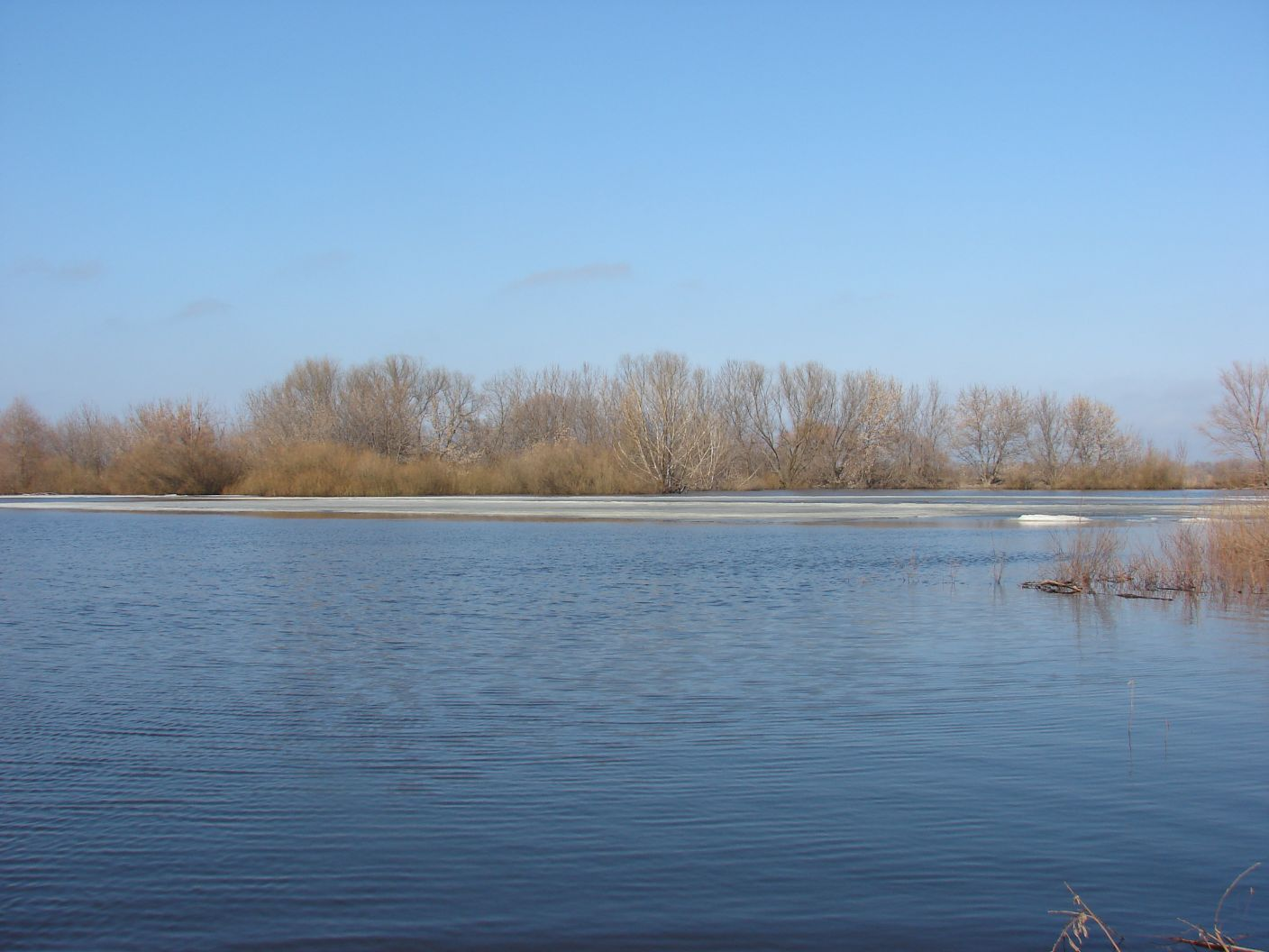 Berezovka river